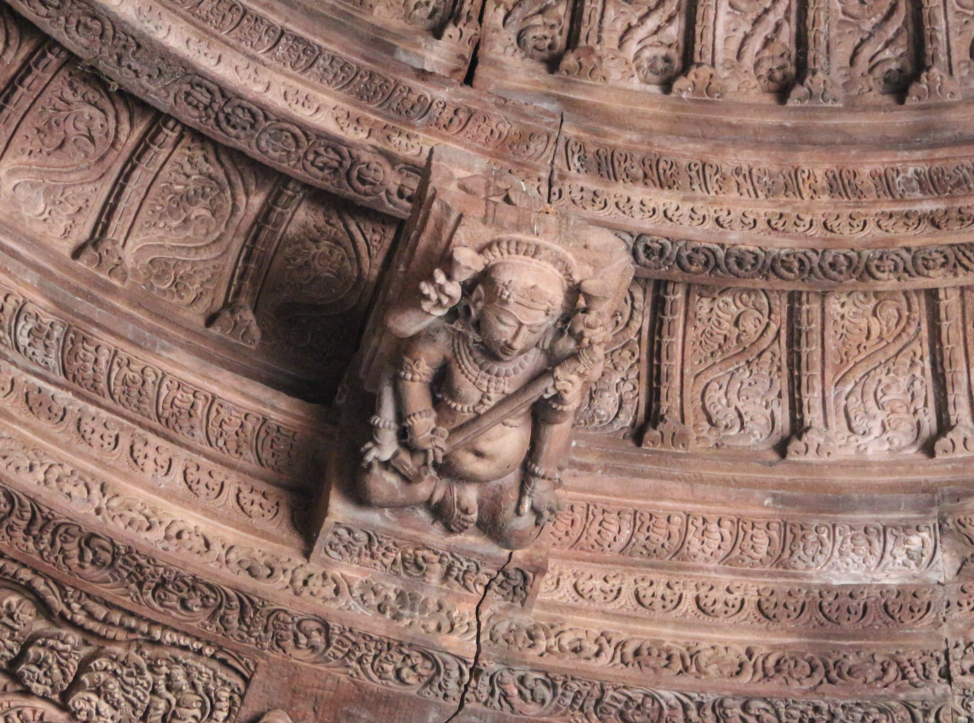 Sculpture of a Gana inside the Shiva Temple, Bhojpur, India